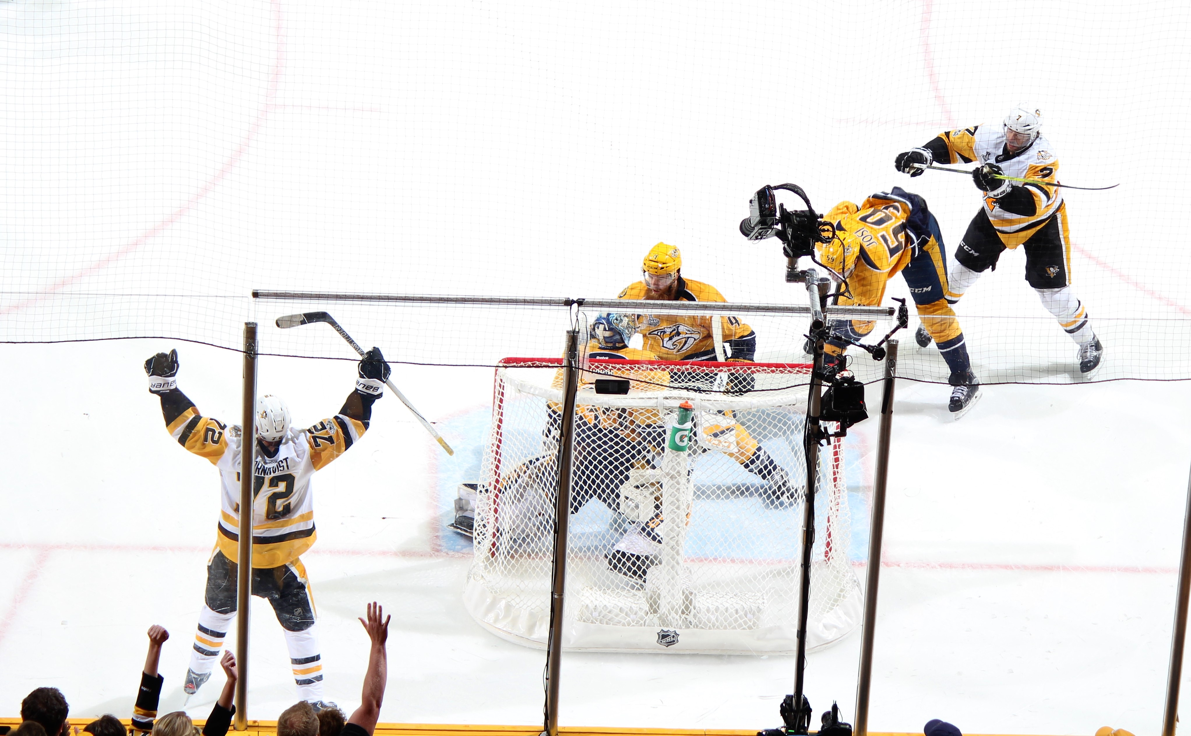 Pittsburgh Penguins forward Patric Hornqvist celebrates what would be the Stanley Cup clinching goal in game 6 versus the Nashville Predators, June 11, 2017, at Bridgestone Arena in Nashville, TN.